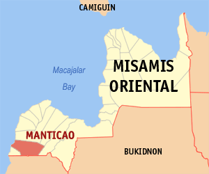 Map of the Misamis Oriental showing the location of Manticao